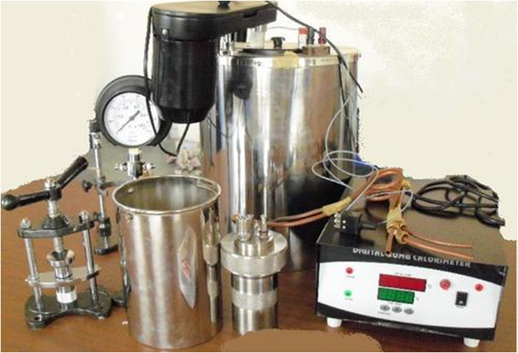 This is the picture of a typical setup of Bomb Calorimeter